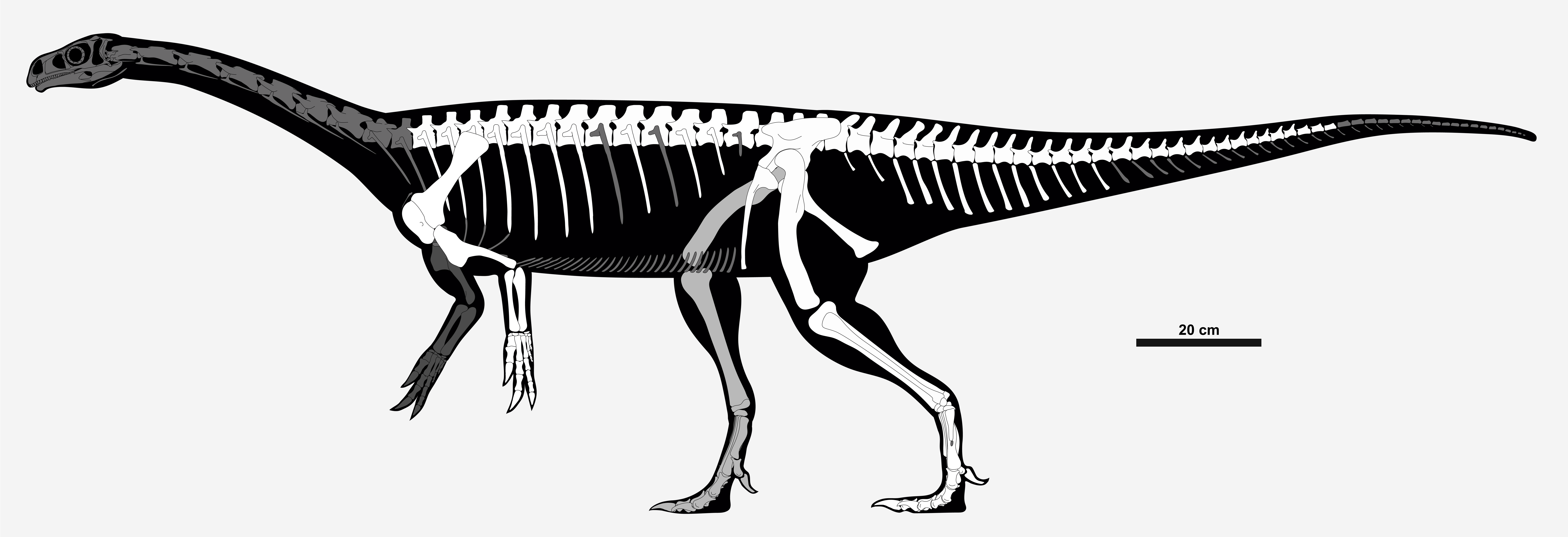 Digital drawing of the known skeletal remains of Guaibasaurus candelariensis (some elements have been reflected).